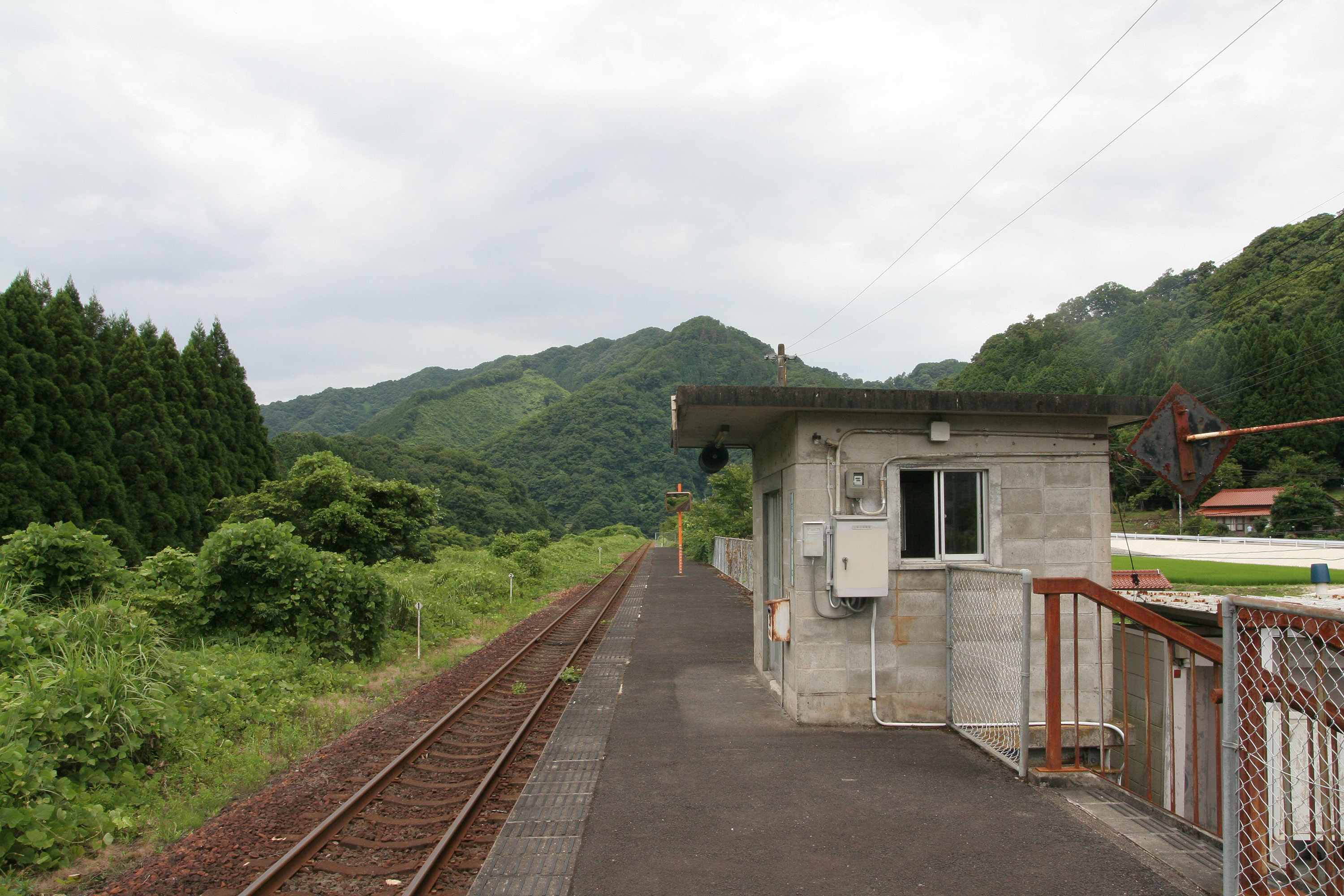 West Japan Railway Sankō Line Sawadani Station enclosure